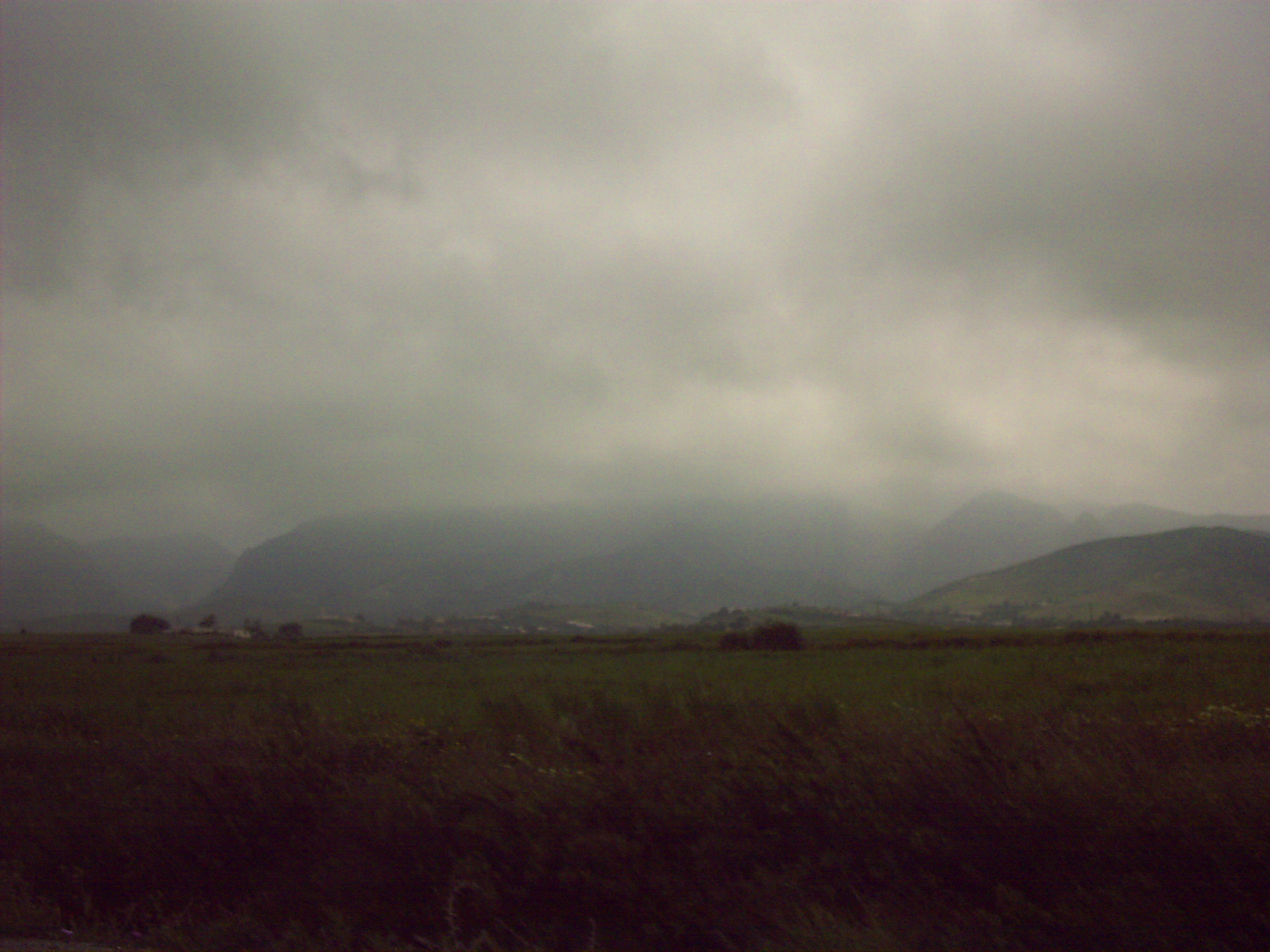 This is a demonstration of strong winds and torrents of rain in Morocco southern area around FES.